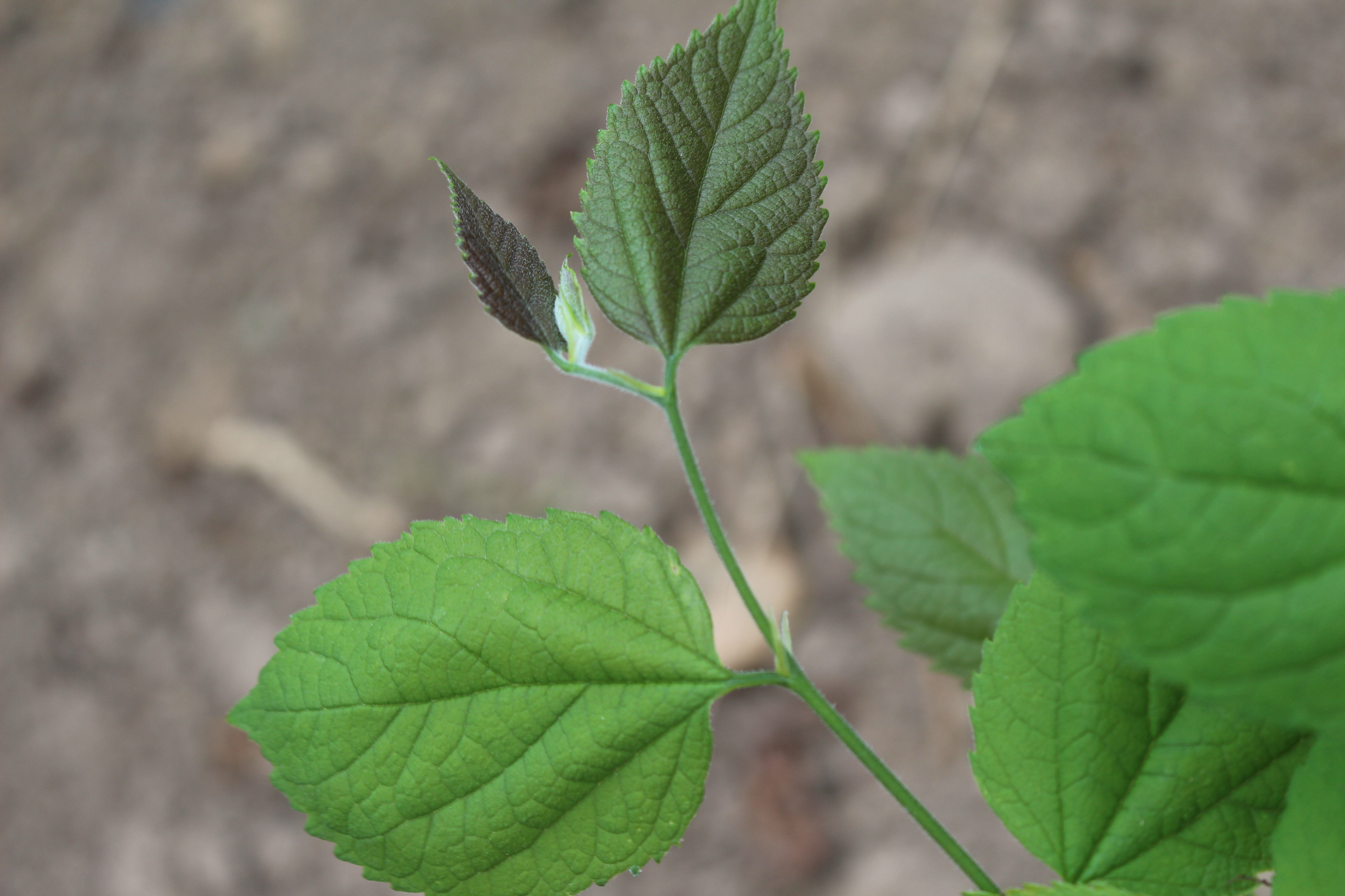 Young leaves of a Celtis jessoensis individual grown in Germany.